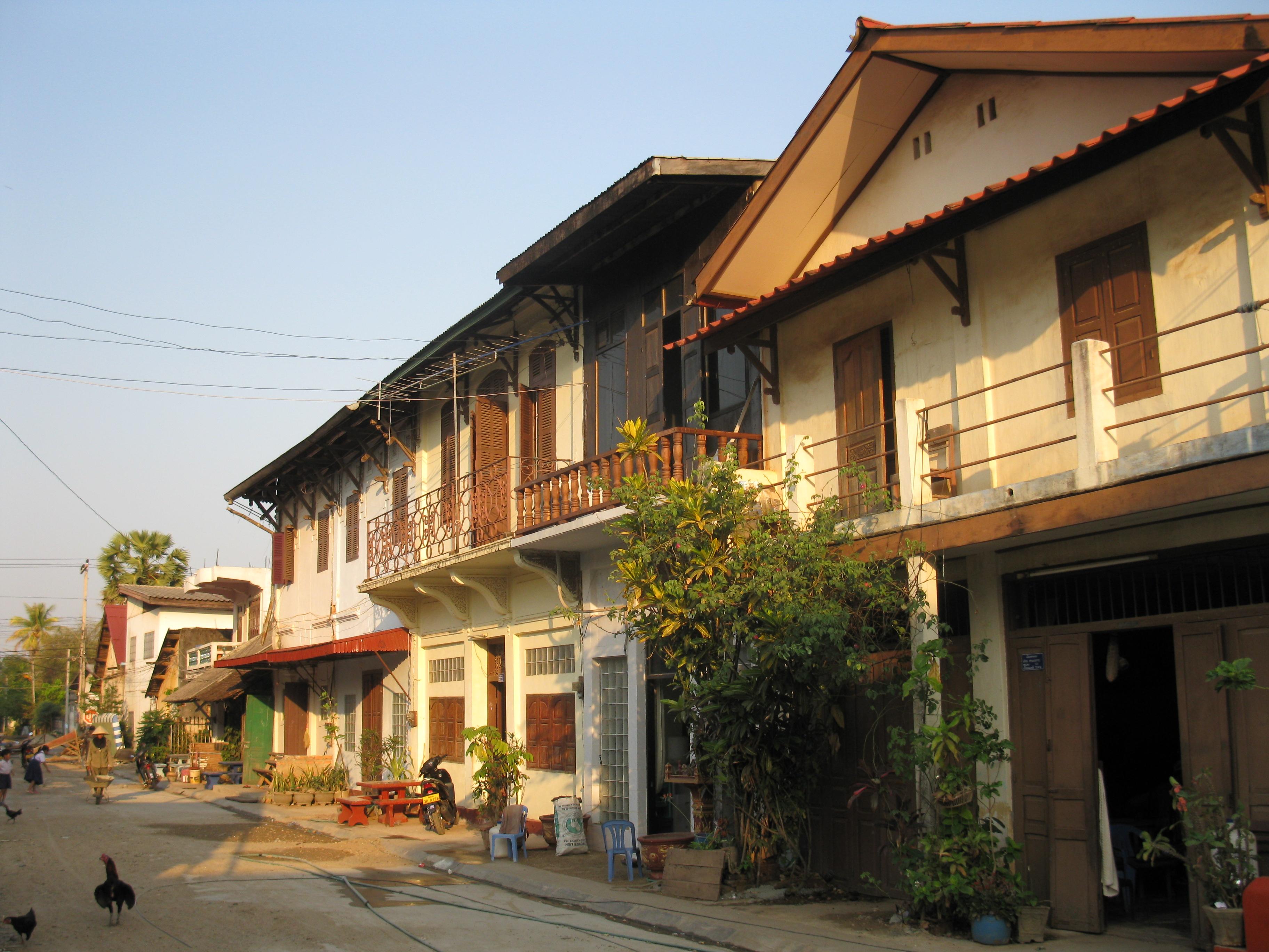 Old colonial houses, City of Thakhek, Laos.